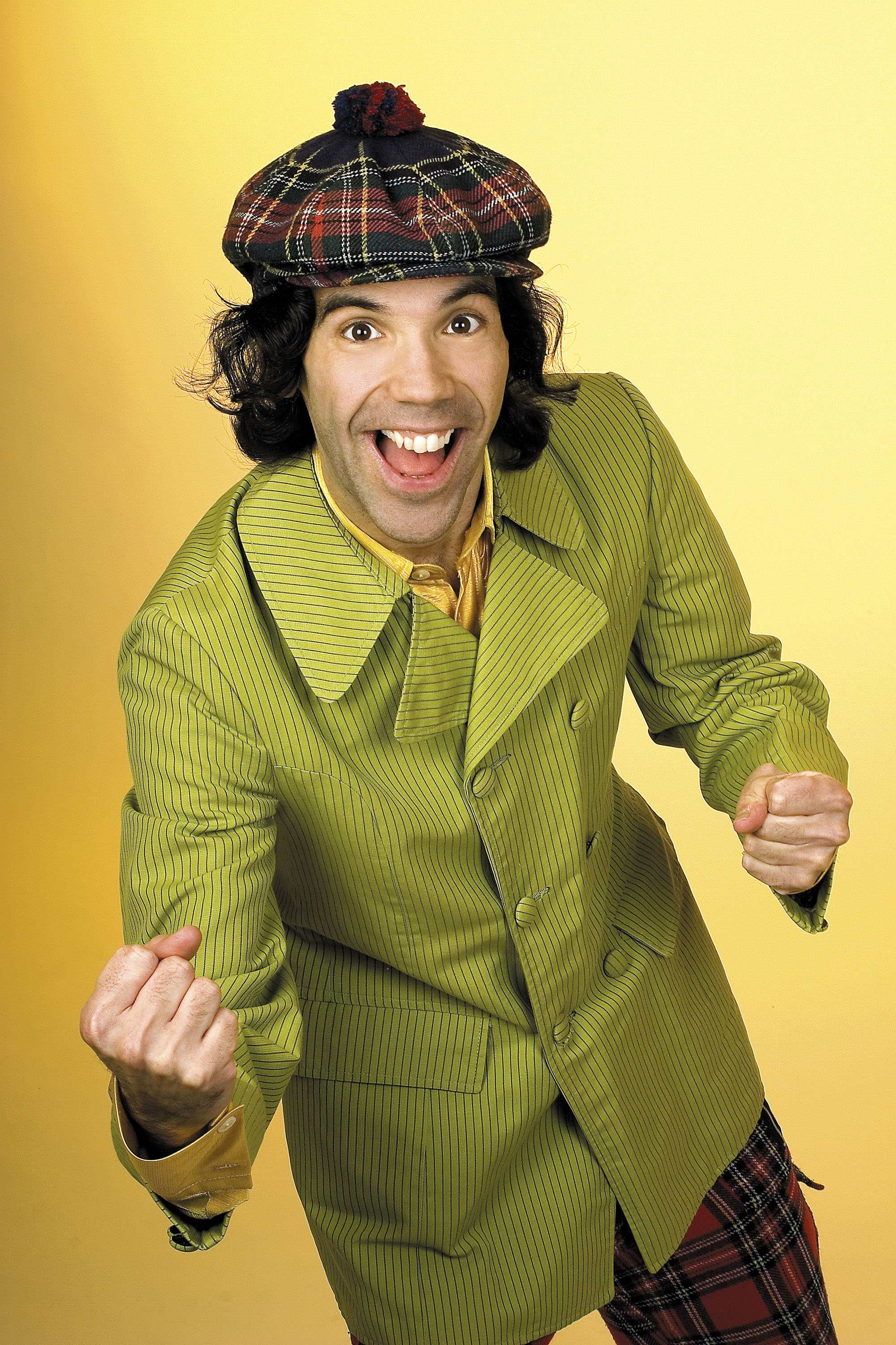 Free image of Nardwuar The Human Serviette